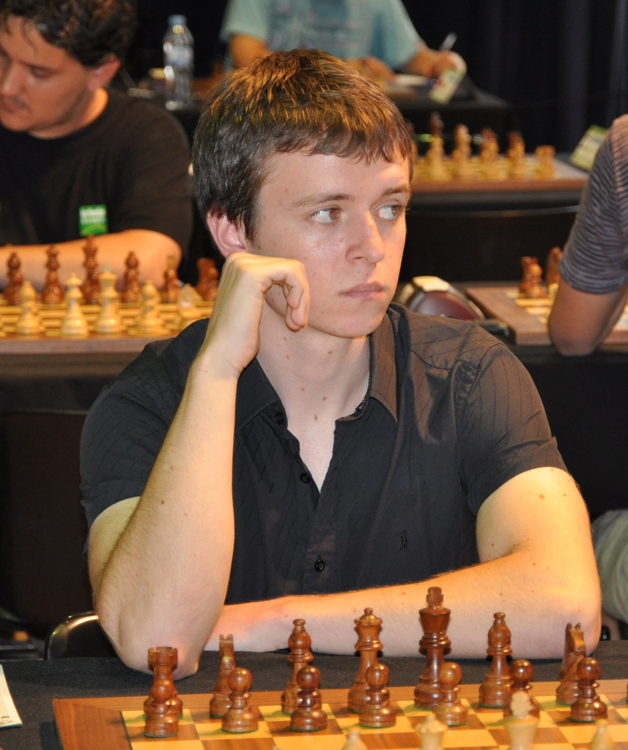 GM Maxim Rodshtein (Israel), XII Open Internacional de Sants, Hostafrancs i la Bordeta Grup A, Barcelona 2010